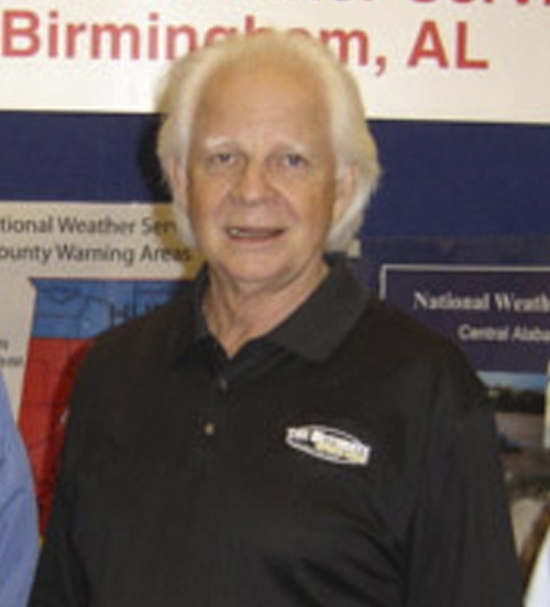 "Greetings from the Central Gulf Coast! NOAA's National Weather Service Forecast Office in Birmingham, Alabama represented the NWS offices serving the state at the Alabama Broadcasters Association 2007 Convention. Former NFL quarterback Kenny Stabler and then color commentator for the University of Alabama Crimson Tide..."